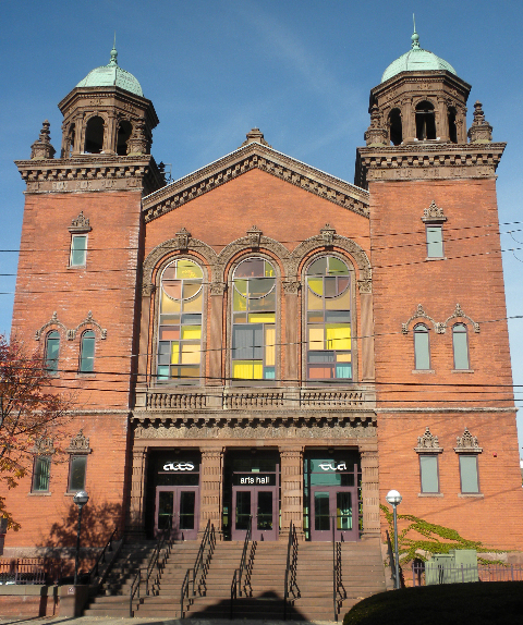 Temple Mishkan Israel, Orange St., New Haven